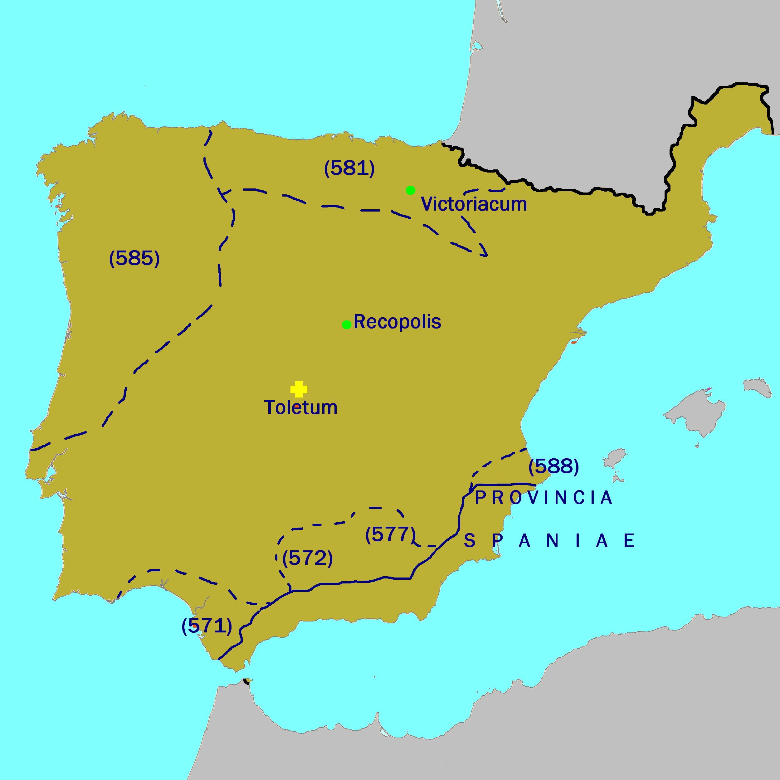 hispania maxima